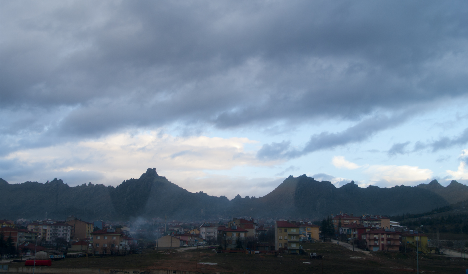 At a winter dawn, view to Sivrihisar from Road D200 (Ankara-Eskişehir Road). Eskişehir, Turkey.